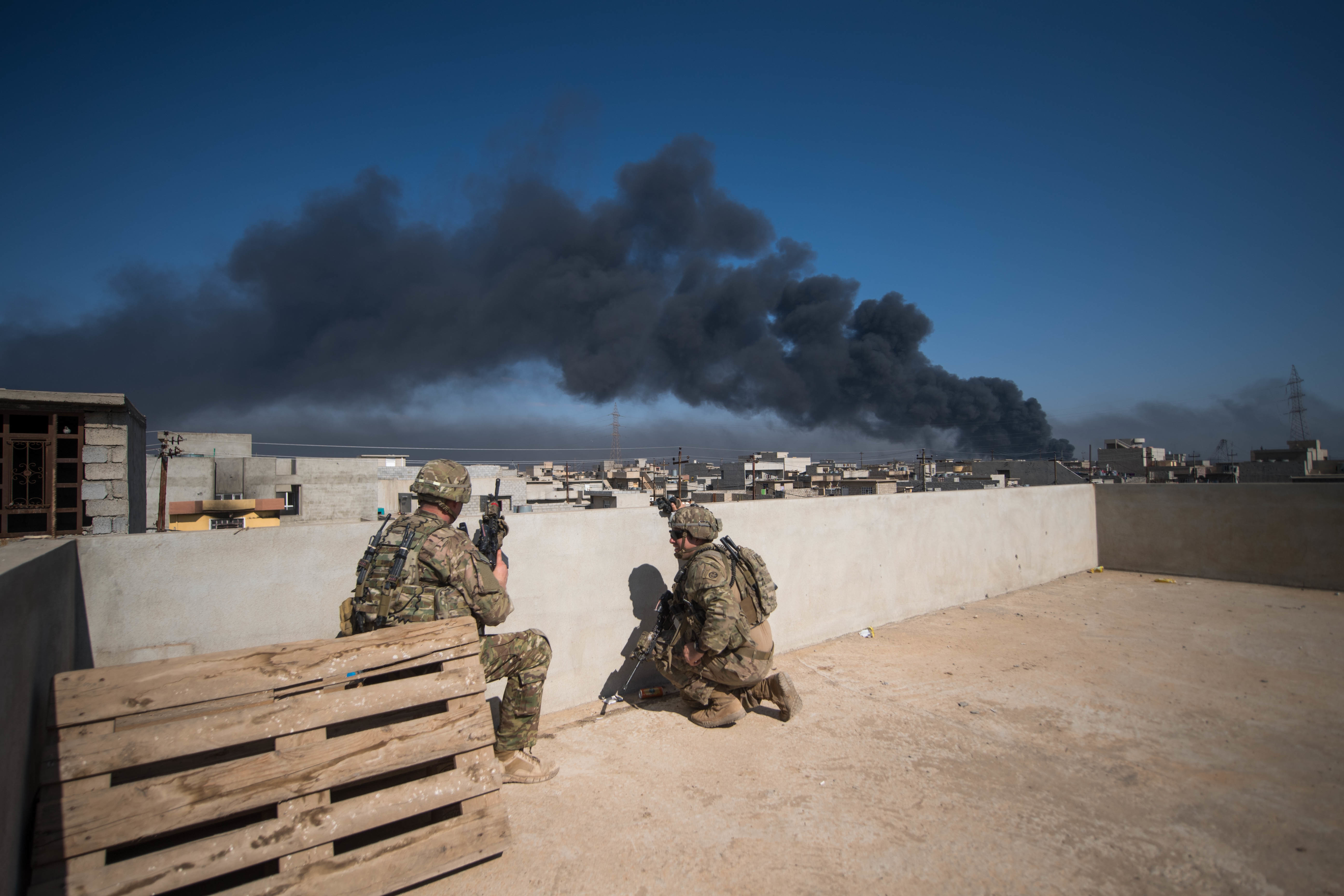 U.S. Army Soldiers, deployed in support of Combined Joint Task Force - Operation Inherent Resolve, assigned to 2nd Battalion, 325th Airborne Infantry Regiment, 2nd Brigade Combat Team, 82nd Airborne Division, use a rooftop as an observation post in Mosul Iraq, March 7, 2017. CJTF-OIR is a global Coalition of more than 60 regional and international nations that have joined together to enable partner forces to defeat ISIS. CJTF-OIR is the global Coalition to defeat ISIS in Iraq and Syria. (U.S. Army photo by Staff Sergeant Alex Manne)